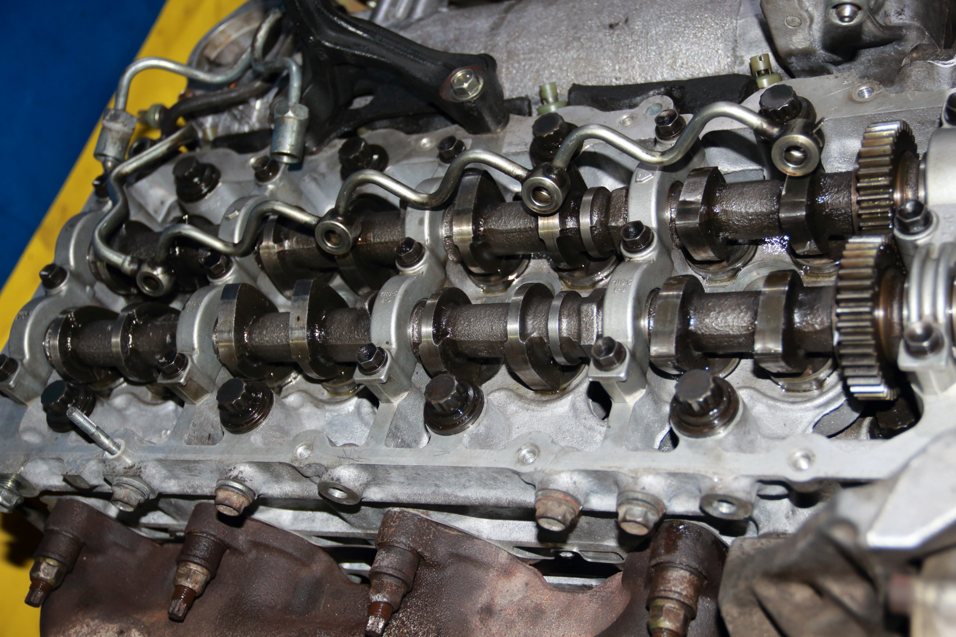 Cylinder head of Toyota 1KD-FTV engine